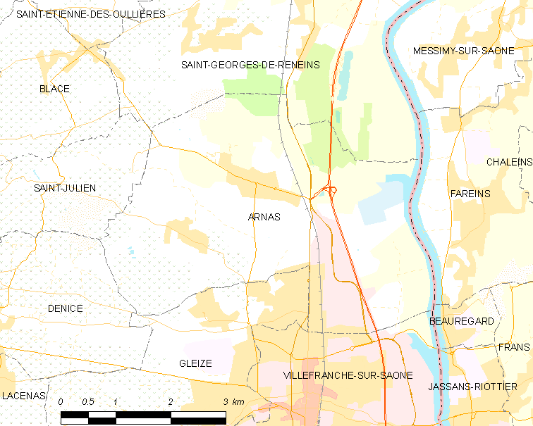 Map of French municipality